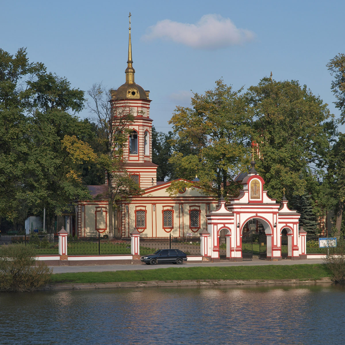 Belltower of Altufyevo church